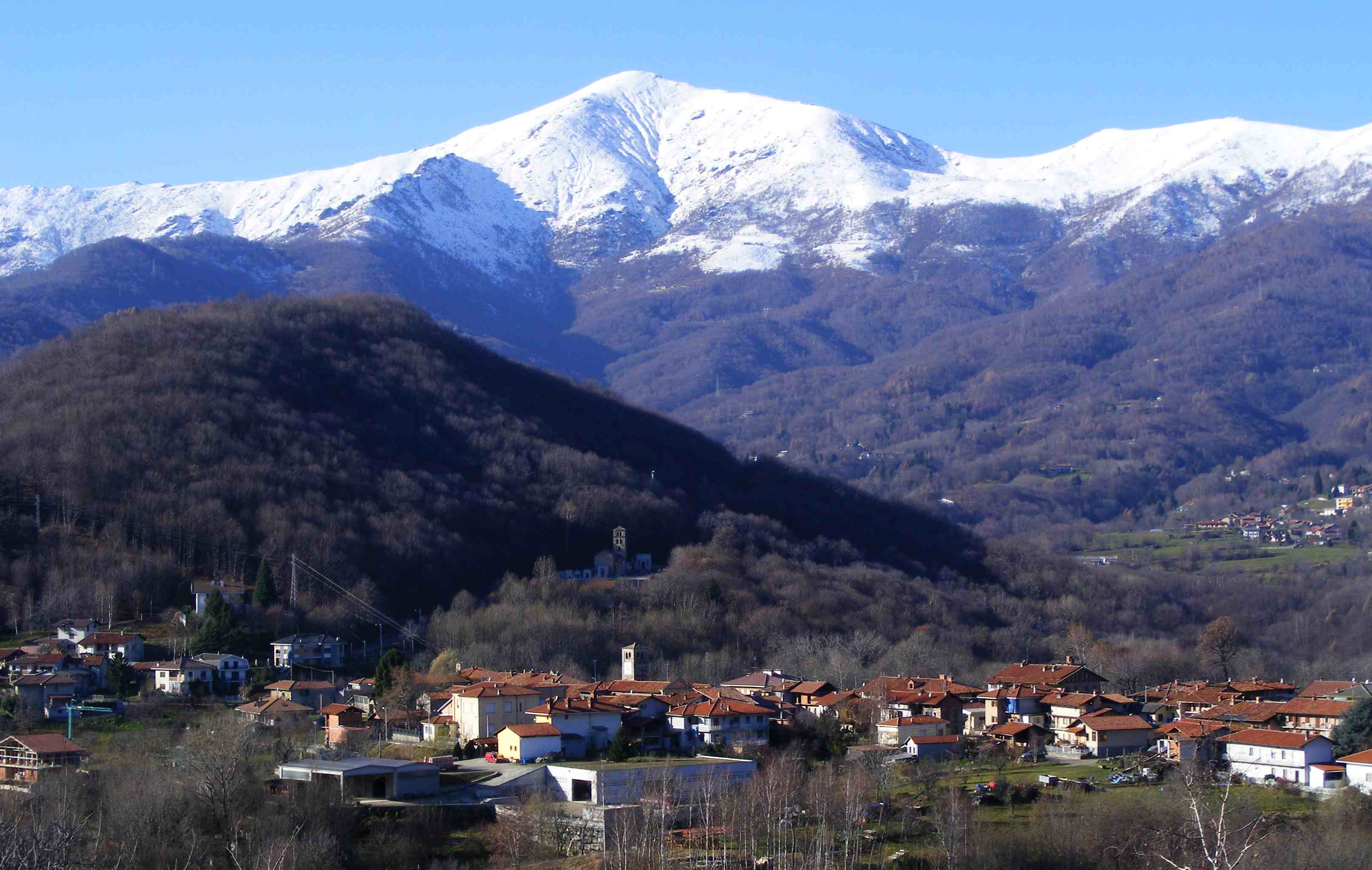 Prascorsano (TO, Italy): panorama from Frazione Pemonte; on the background a snowy Monte Soglio